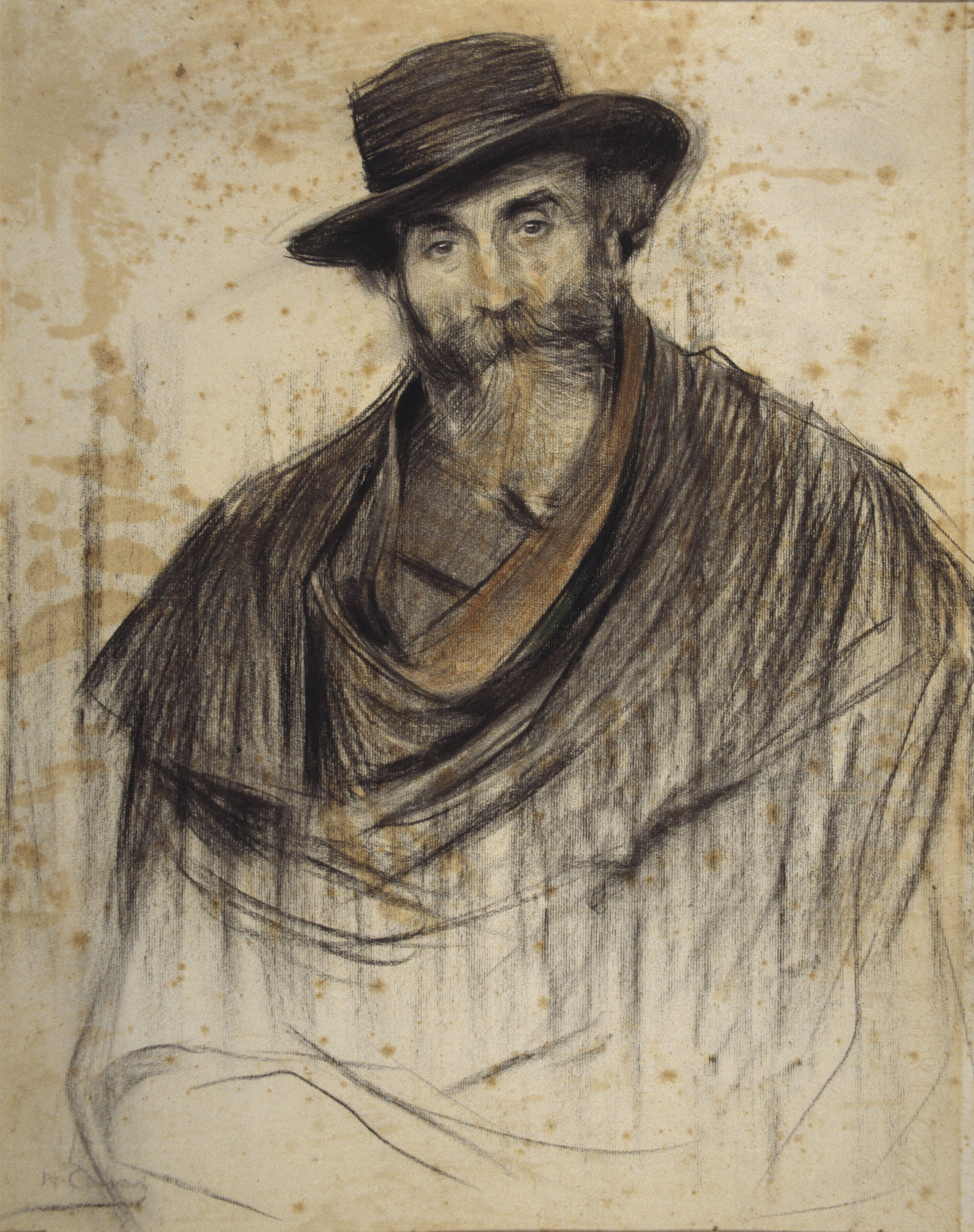 Portrait by Ramon Casas conserved at MNAC in Barcelona. Imagen 277